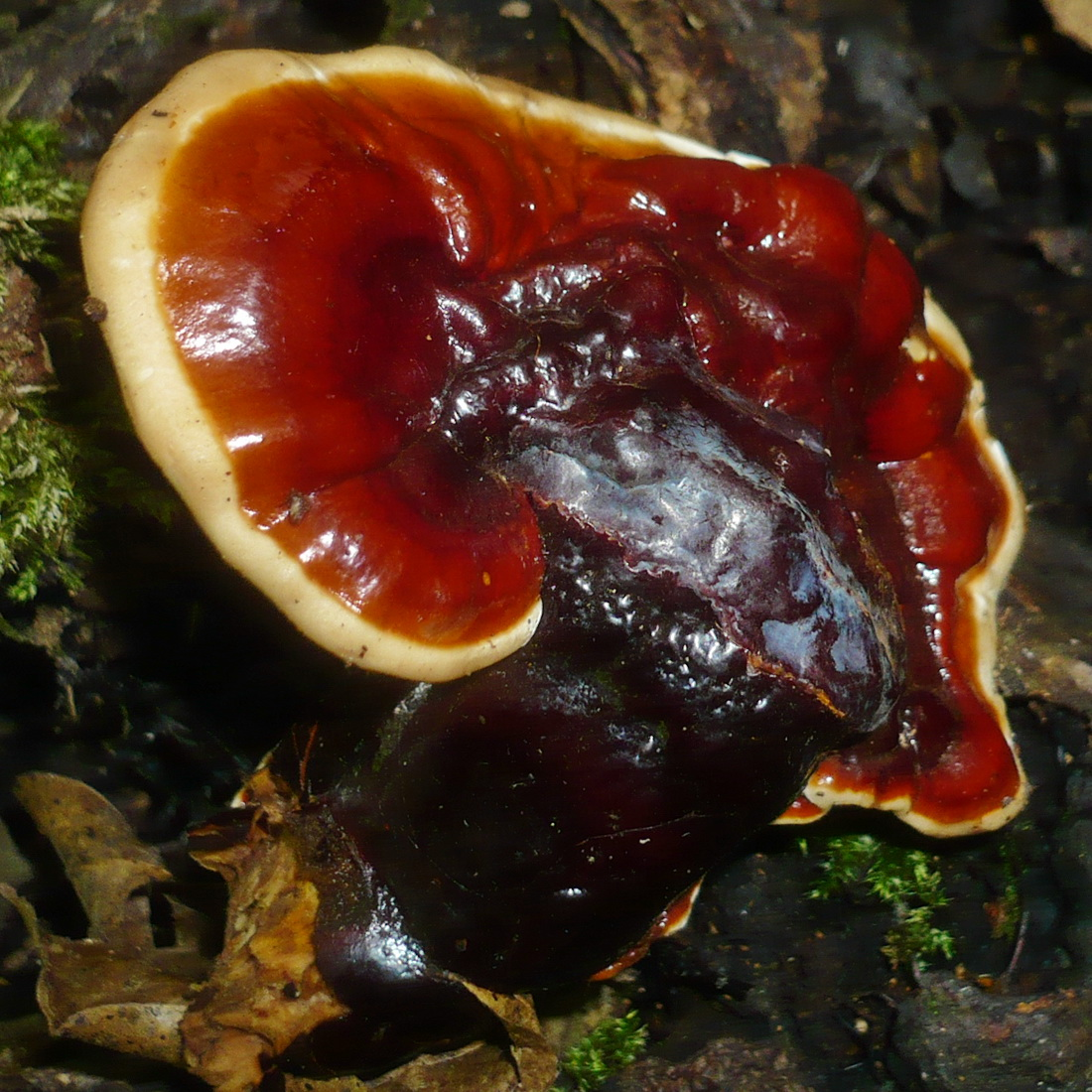 Ganoderma carnosum Pat. Image location: Schwabeck, St.Gotthard im Texingtal, Bezirk Melk, Lower Austria, Austria For more information about this, see the observation page at Mushroom Observer.